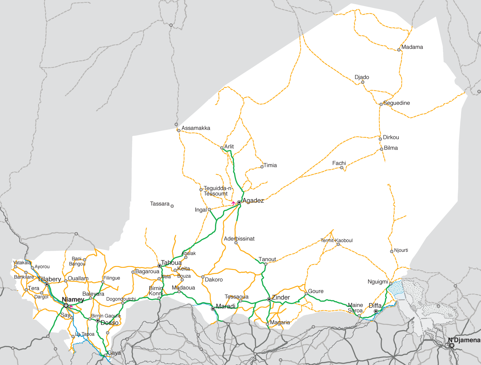 Map of the road network of the republic of Niger. Green is paved, solid orange is partially improved laterite or pressed earth roads, dashed orange are tracks or sand "pistes". Modification of Public domain File:Un-niger.png